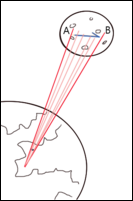 Figure 3: An alternative explanation of the movement of lateral movement of a ray of light on the moon.